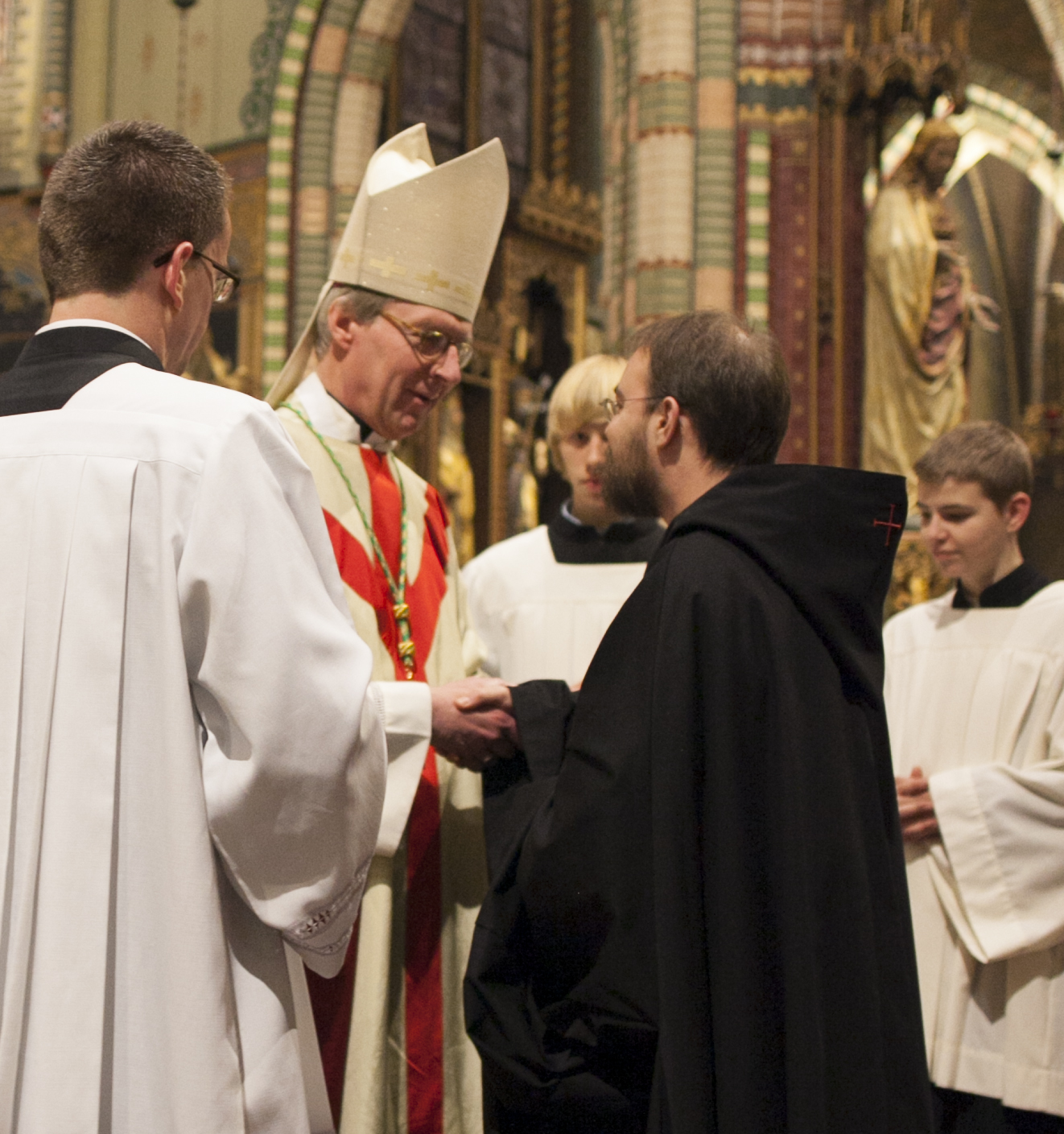 Bishop de Korte, bishop of Groningen-Leeuwarden congratulates brother Hugo, diocesan hermit of the diocese, just after his perpetual vows.